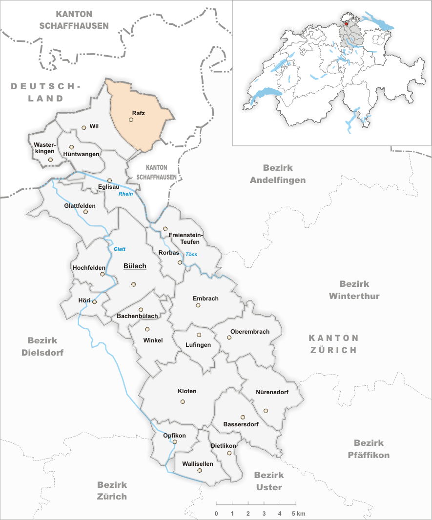 Municipality Rafz